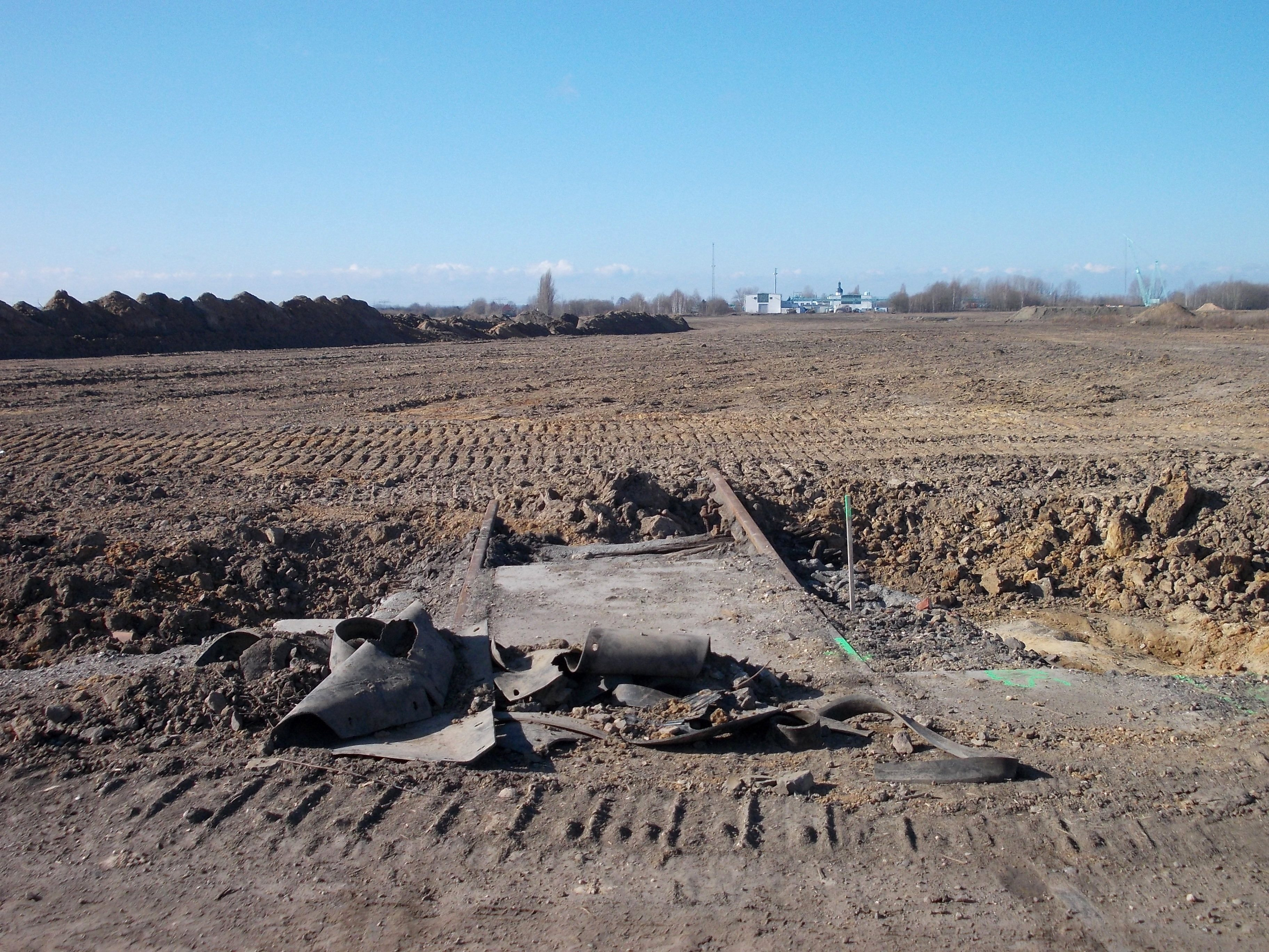 Remains of the Pegau-Neukieritzsch railway line near the former village of Drossdorf (Groitzsch, Leipzig district, Saxony)